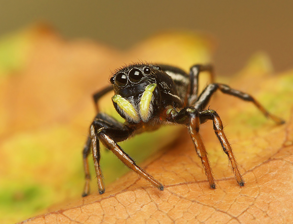 Jumping spider - Heliophanus sp.